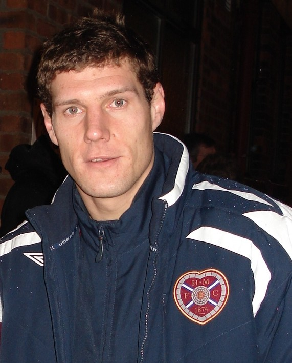 Andrius Velicka outside Pittodrie stadium in Aberdeen